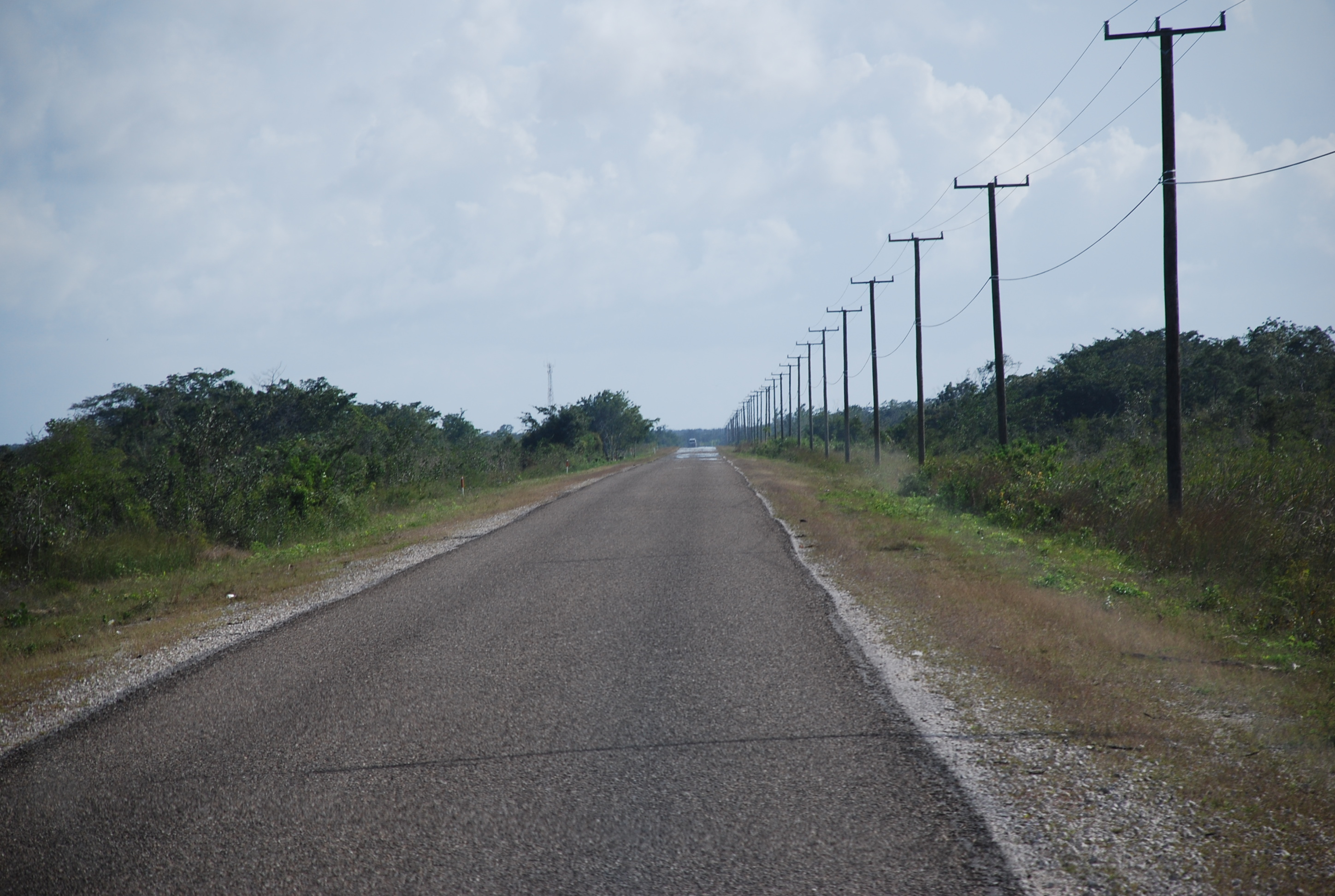 Shore excursion to Belize: Lamanai and New River Safari